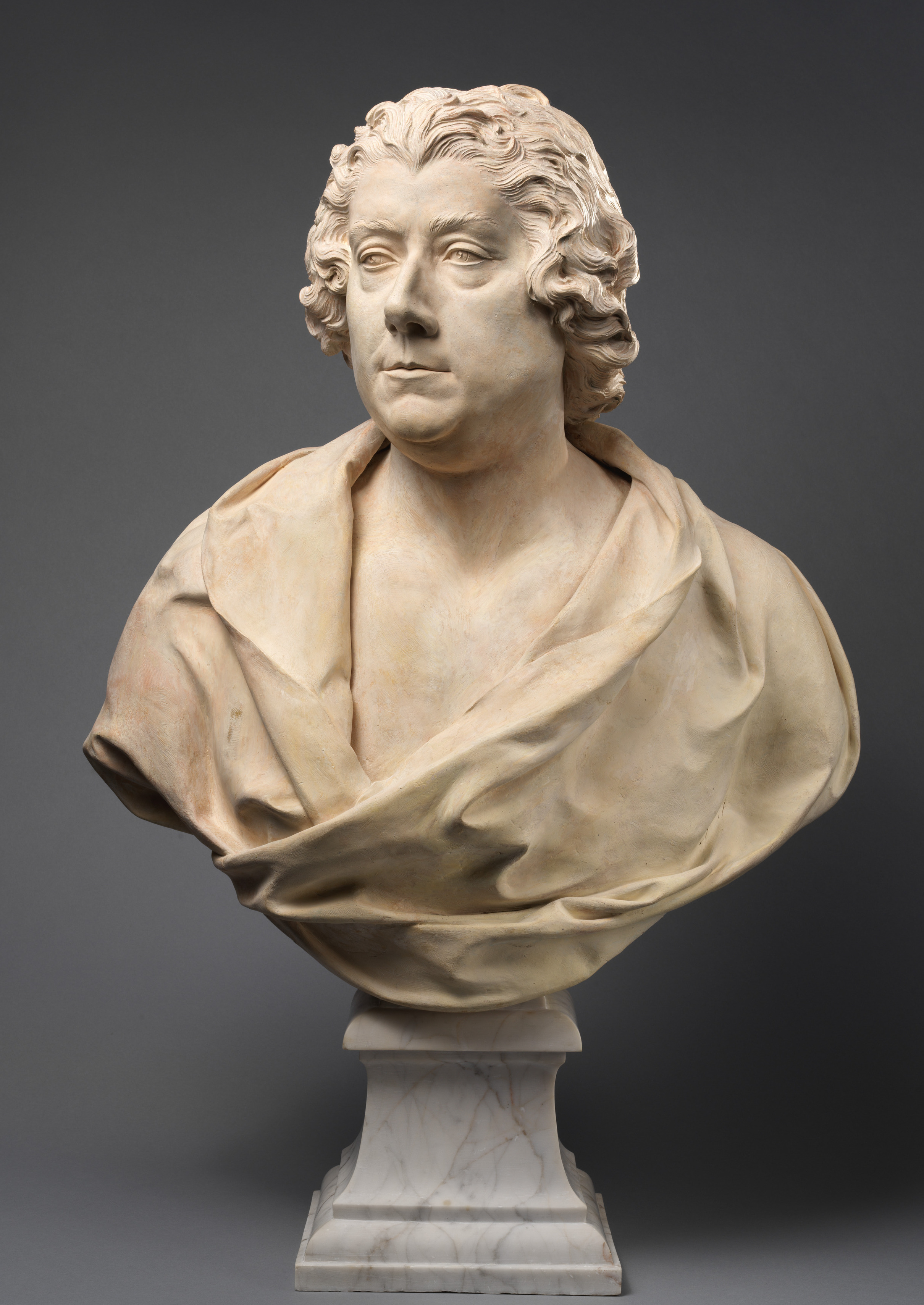 Terracotta bust of Francesco Bernardi known as "Il Senesino"